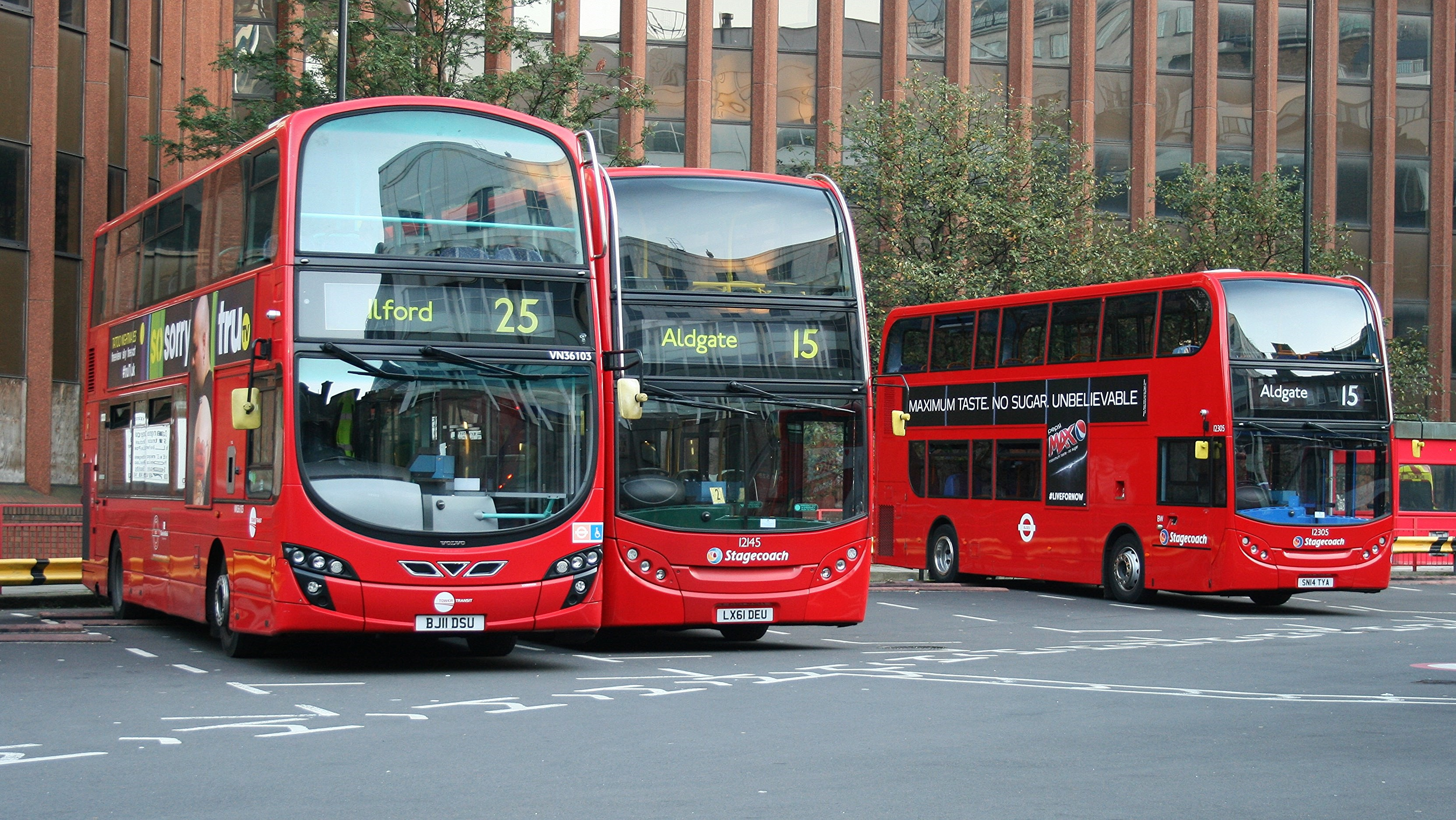 Tower Transit VN36103 (Route 25), Stagecoach London 12145 & 12305 (Route 15), Aldgate Bus Station